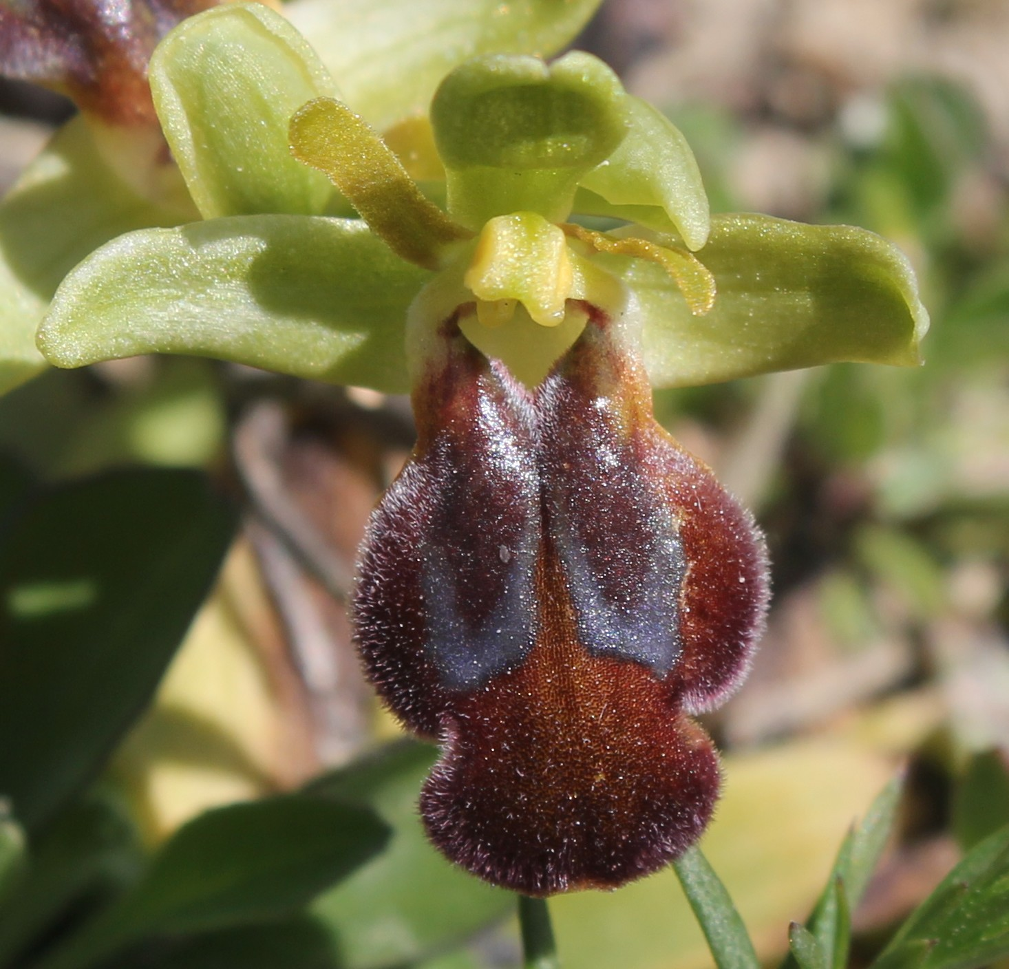 Ophrys fusca labellum